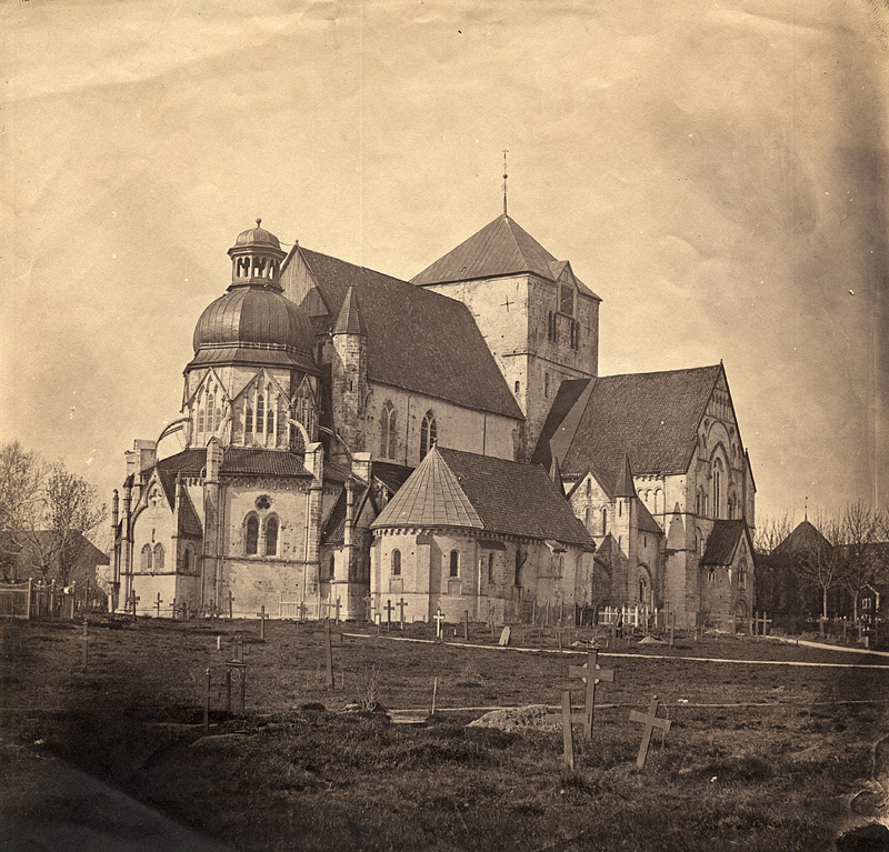 Nidaros Cathedral in Trondheim, Norway from northeast. Photography from 1857.